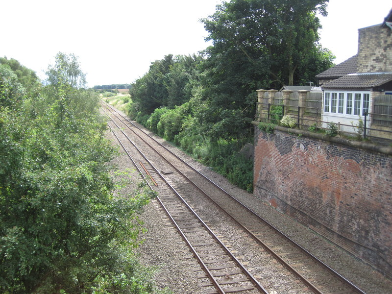 Lea railway station (site), LincolnshireOpened in 1849 by the Great Northern Railway on its line from Lincoln to Gainsborough, it closed in 1957 to passengers and completely in 1963. View south east from Station Road bridge.